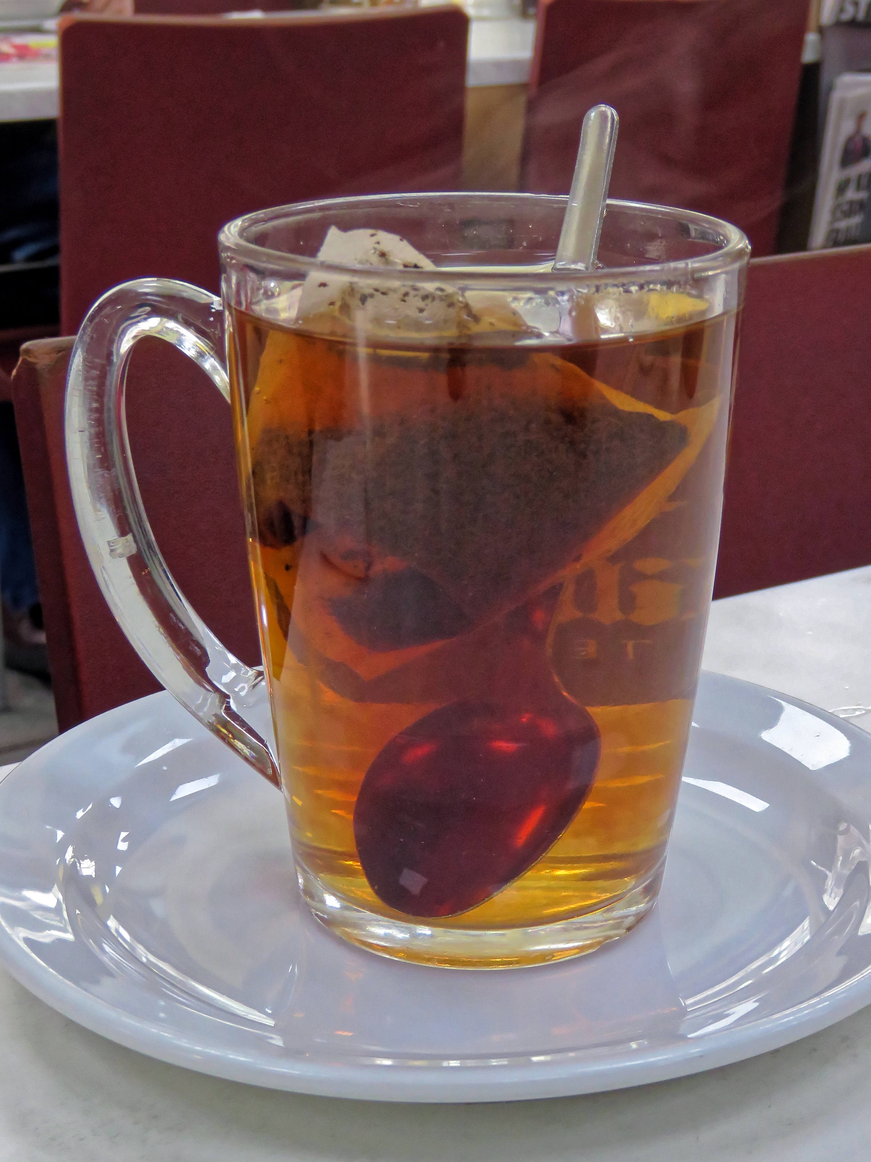 A glass mug with Earl Grey tea bag at Cafe Express on York Way, in Camden, London, England.Mobile device view: Wikimedia (as at 2019) makes it difficult to immediately view photo groups related to this image. To see its most relevant allied photos, click on Earl Grey tea, and this uploader's Food and drink photos. You can add a beta click-through 'categories' button to the very bottom of photo-pages you view by going to settings... three-bar icon top left.Desktop view: Wikimedia (as at 2019) makes it difficult to immediately view the helpful category links where you can find images related to this one in a variety of ways; for these go to the very bottom of the page.This image is one of a series of date and/or subject allied consecutive photographs kept in progression or location by file name number and/or time marking.Camera: Canon PowerShot SX60 HS.Software: file lens-corrected and optimized with DxO PhotoLab 2 Elite and Viewpoint 3, and further optimized with Adobe Photoshop CS2.